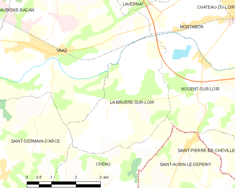 Map of French municipality